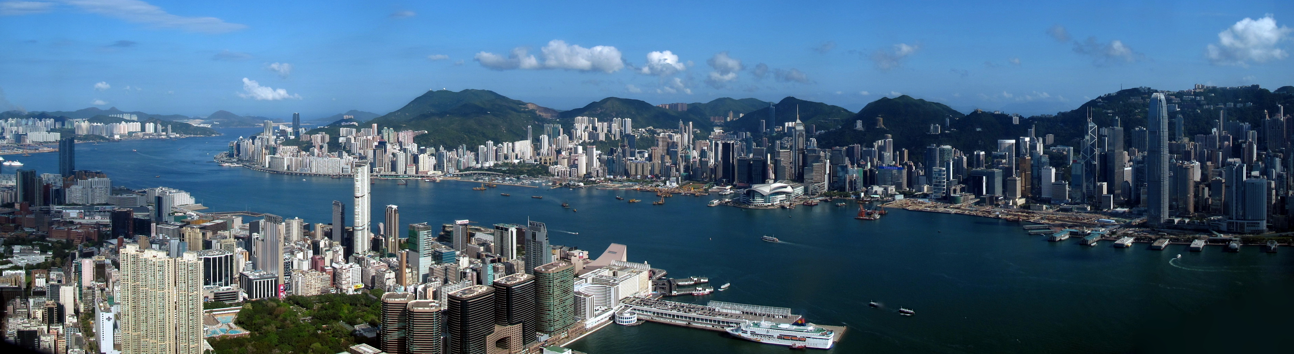 Hong Kong Victoria Harbour Pano View from ICC